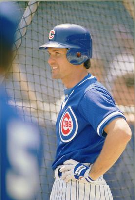 pic from my kodak album